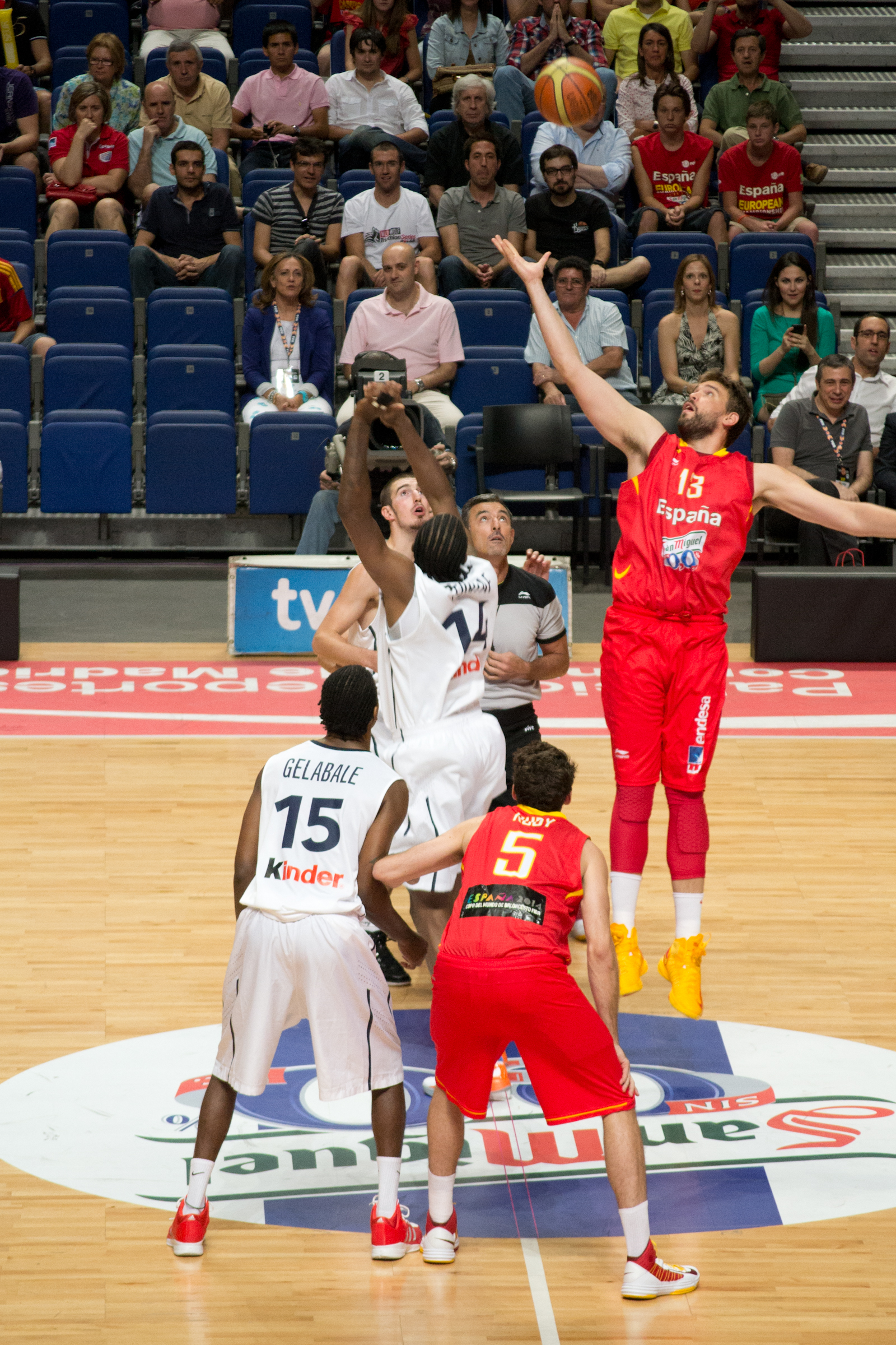 Jump ball between Marc Gasol and Ronny Turiaf at the friendly match Spain vs France. Mickaël Gelabale and Rudy Fernández wait outside the centre circle.